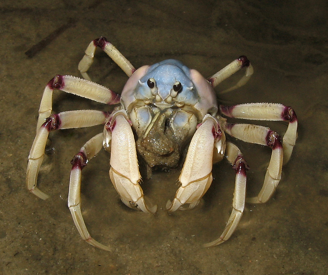 Light-blue Soldier Crab (Mictyris longicarpus), faimly Mictyridae.